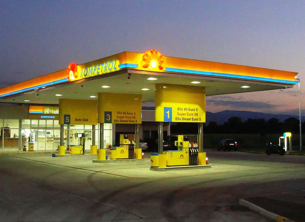 Rompetrol gas station in Plovdiv, Bulgaria.